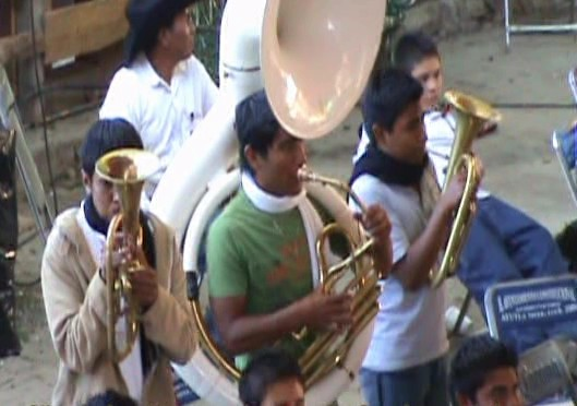 Ayutla banda